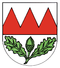 Old Coat of arms of Rheinheim in Küssaberg